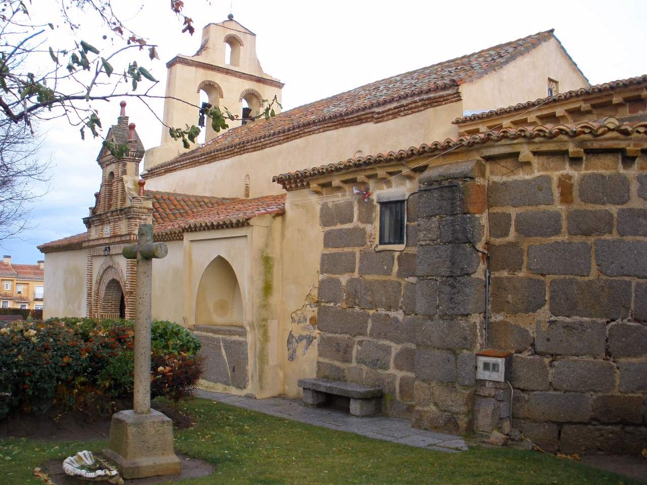 Ermita de N. S. de la Cabeza, Ávila